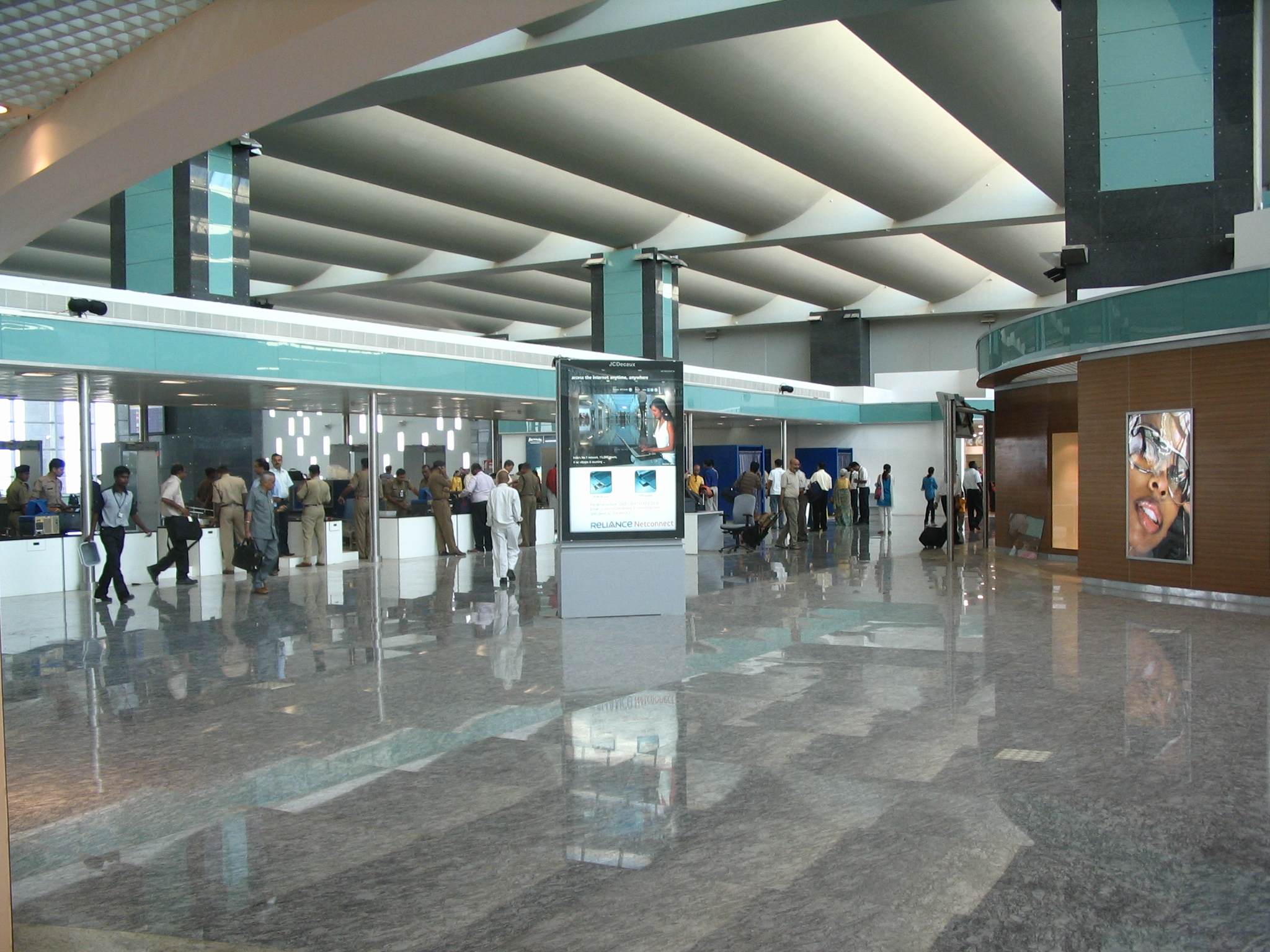 Domestic security check area at Bengaluru International Airport.